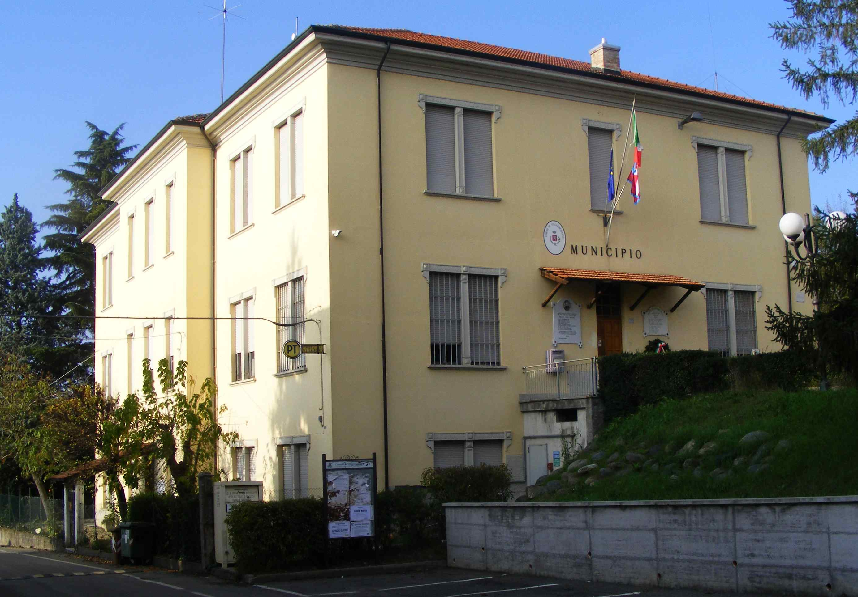 Villaromagnano (AL, Italy): town hall